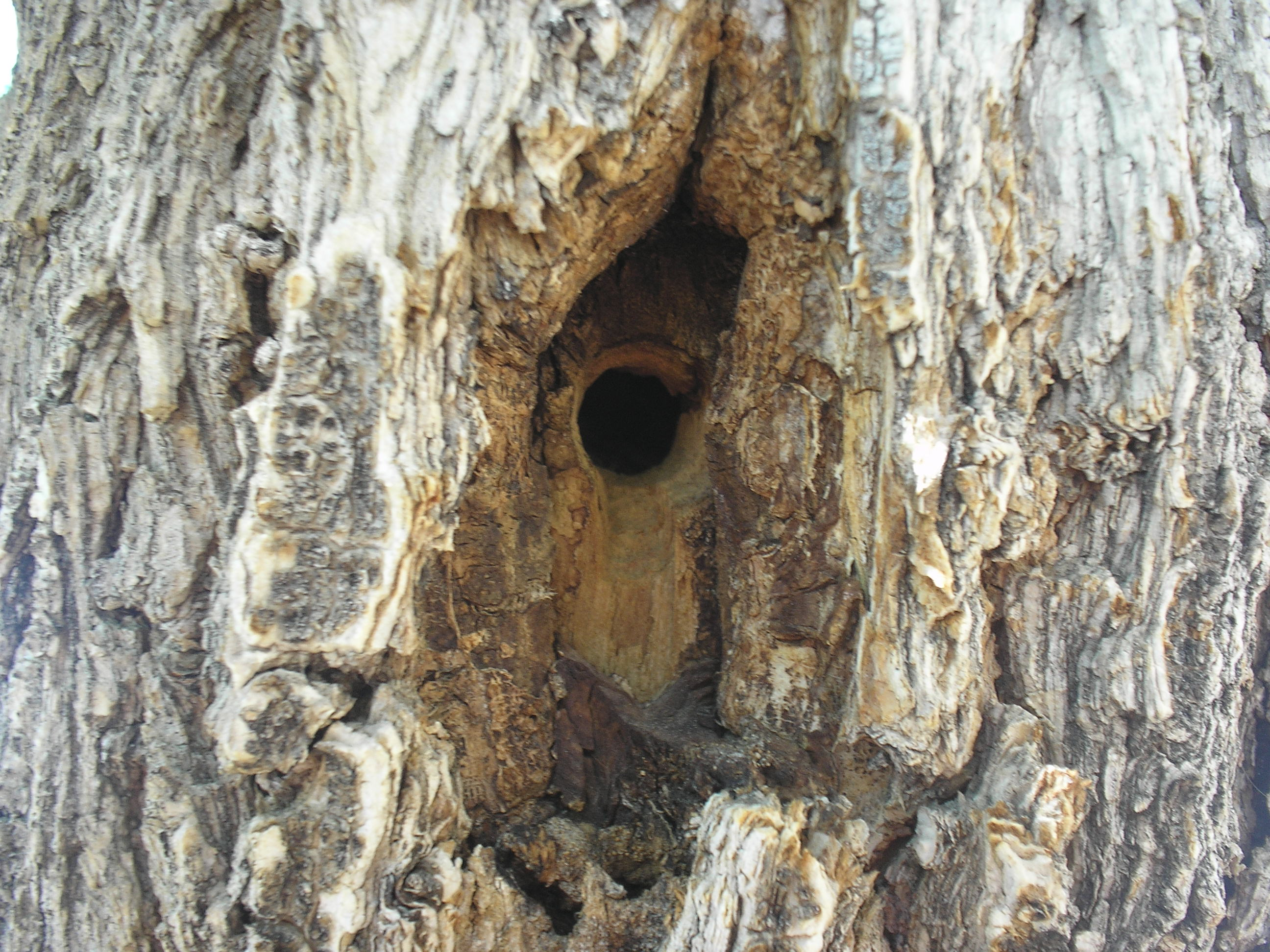 This is a photo of carpenter bees' nest.